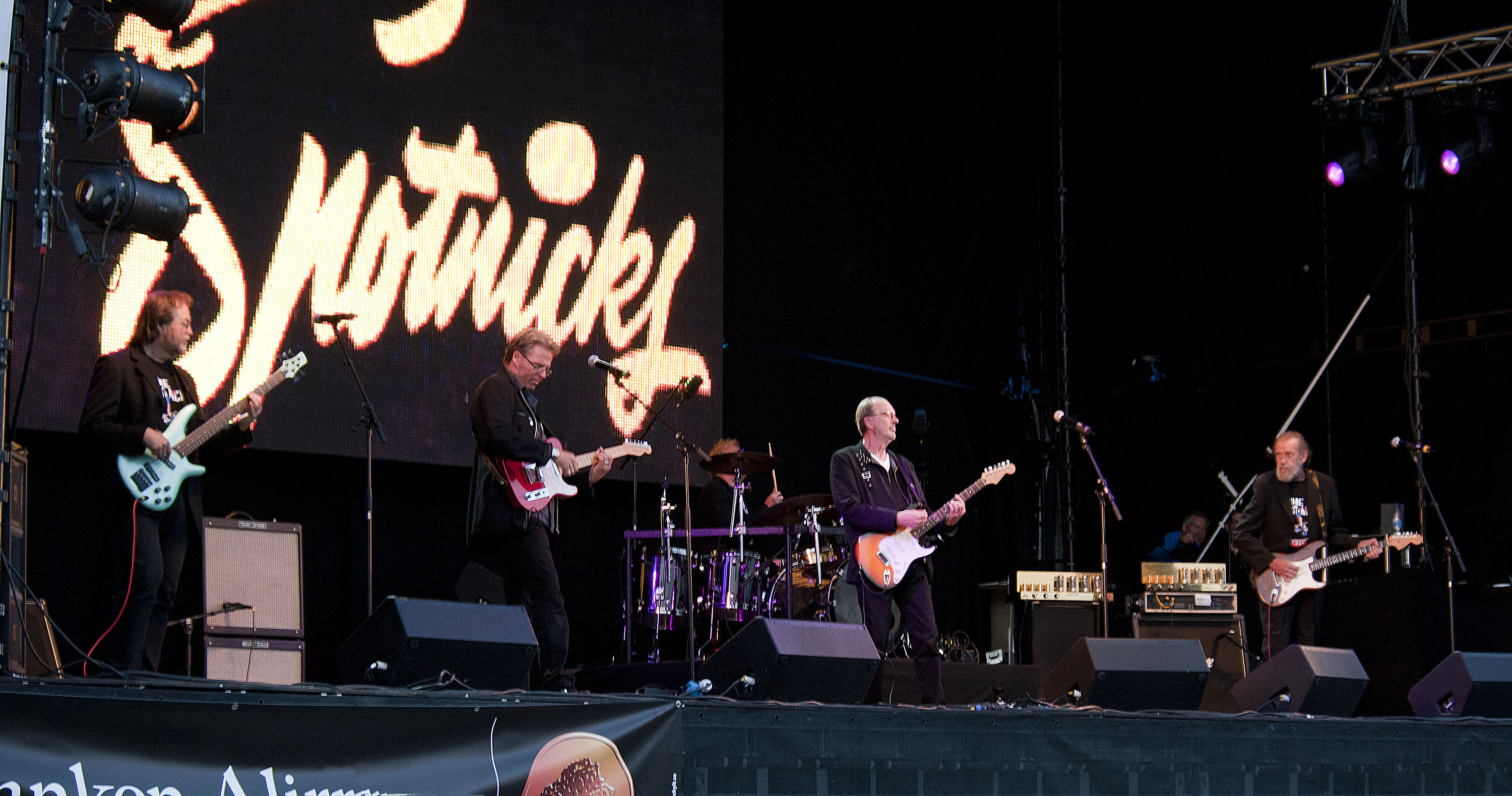 The Spotnicks during Concert in Alingsås